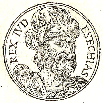 Ezechias-Hezekiah was the son of Ahaz and the 14th king of Judah.